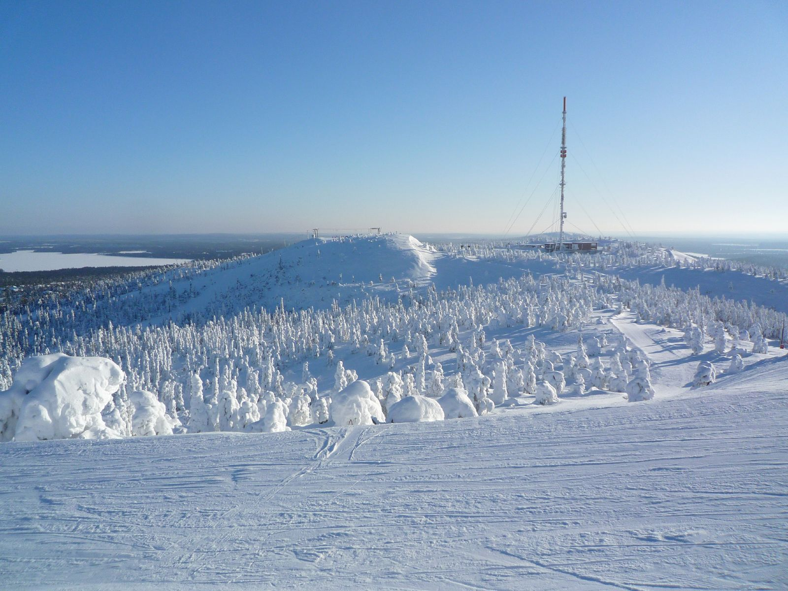 The TV and radio mast on top of Ruka, Northern Finland